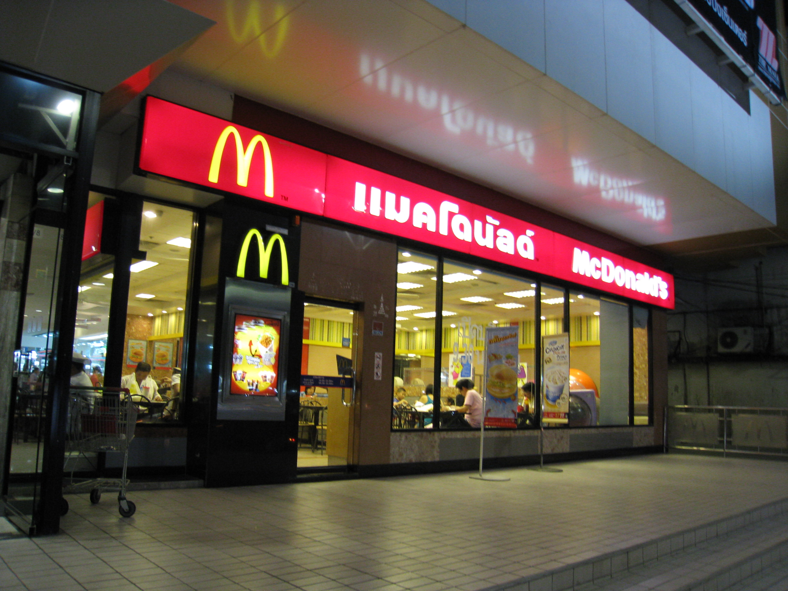 McDonald's restaurants in Bangkok Thailand (The Mall Tha-Pra)